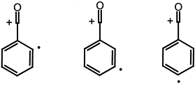 This is a picture example of a distonic ion where you can see the radical site and charge are in different locations